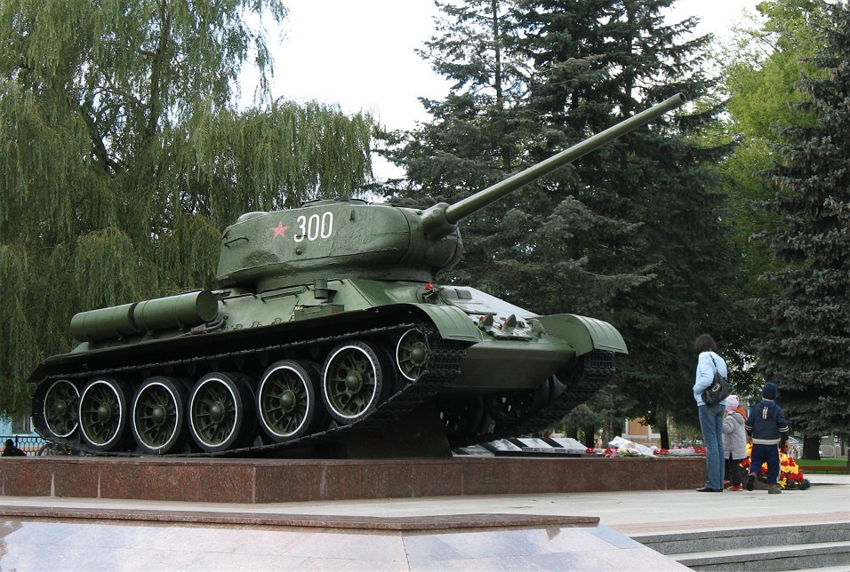 Old tank used as statue next to a square in the city center of Bobruisk, Belarus. (better description to be added later).